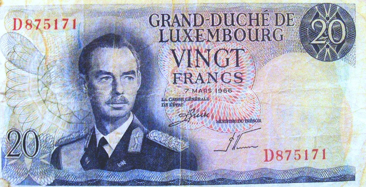 20 Luxembourgish franc